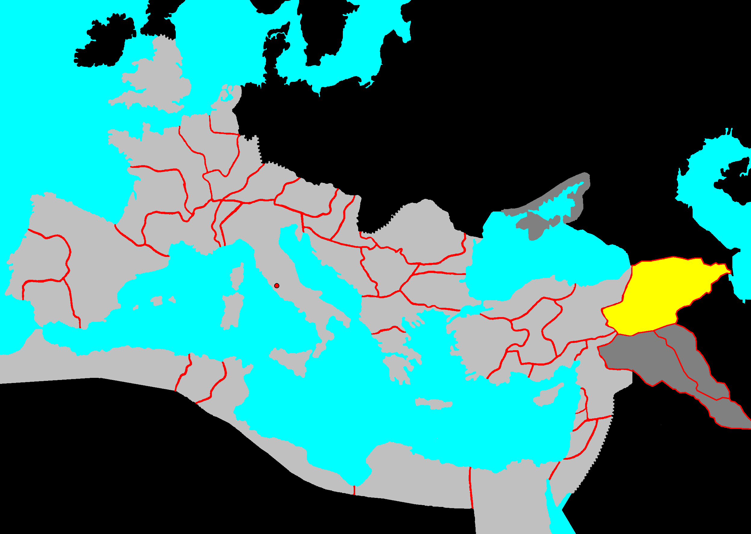 Description: provinces of the Roman Empire (Imperium Romanum) Source: own work Date: December 2005 Author: --Immanuel Giel 12:44, 13 December 2005 (UTC) Other versions: none